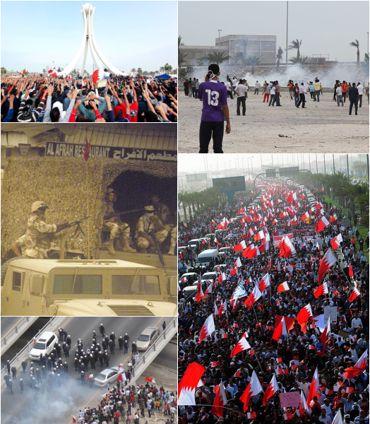 A montage of the Bahraini Uprising created from images available on the Wikimedia Commons.